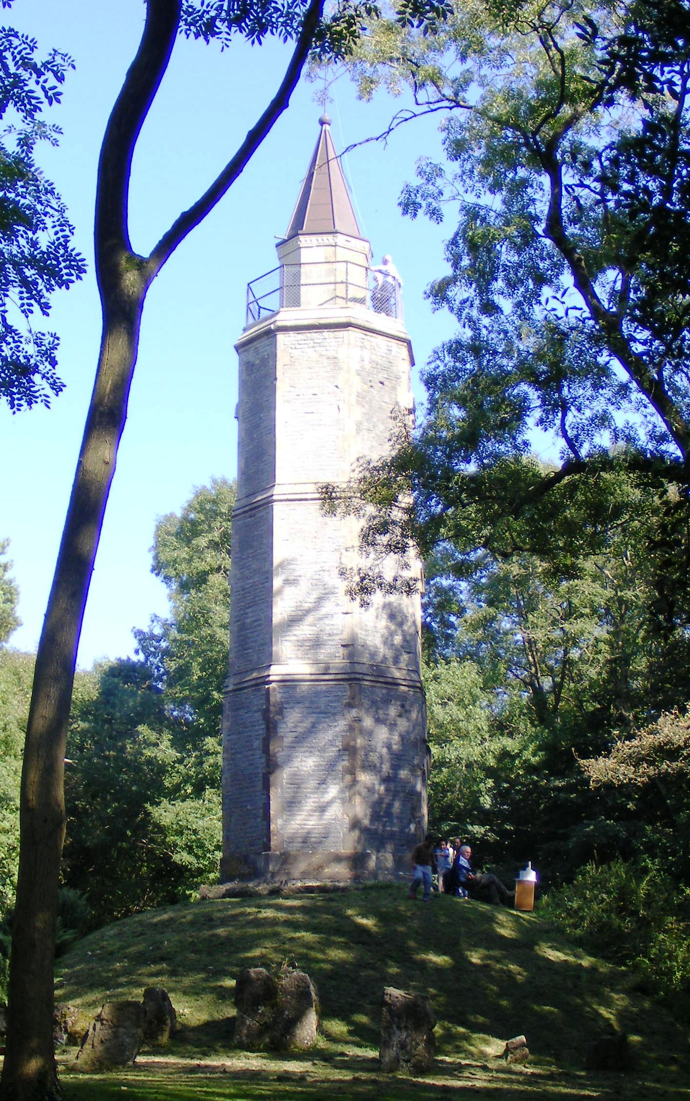 Banwell Tower, Somerset, England